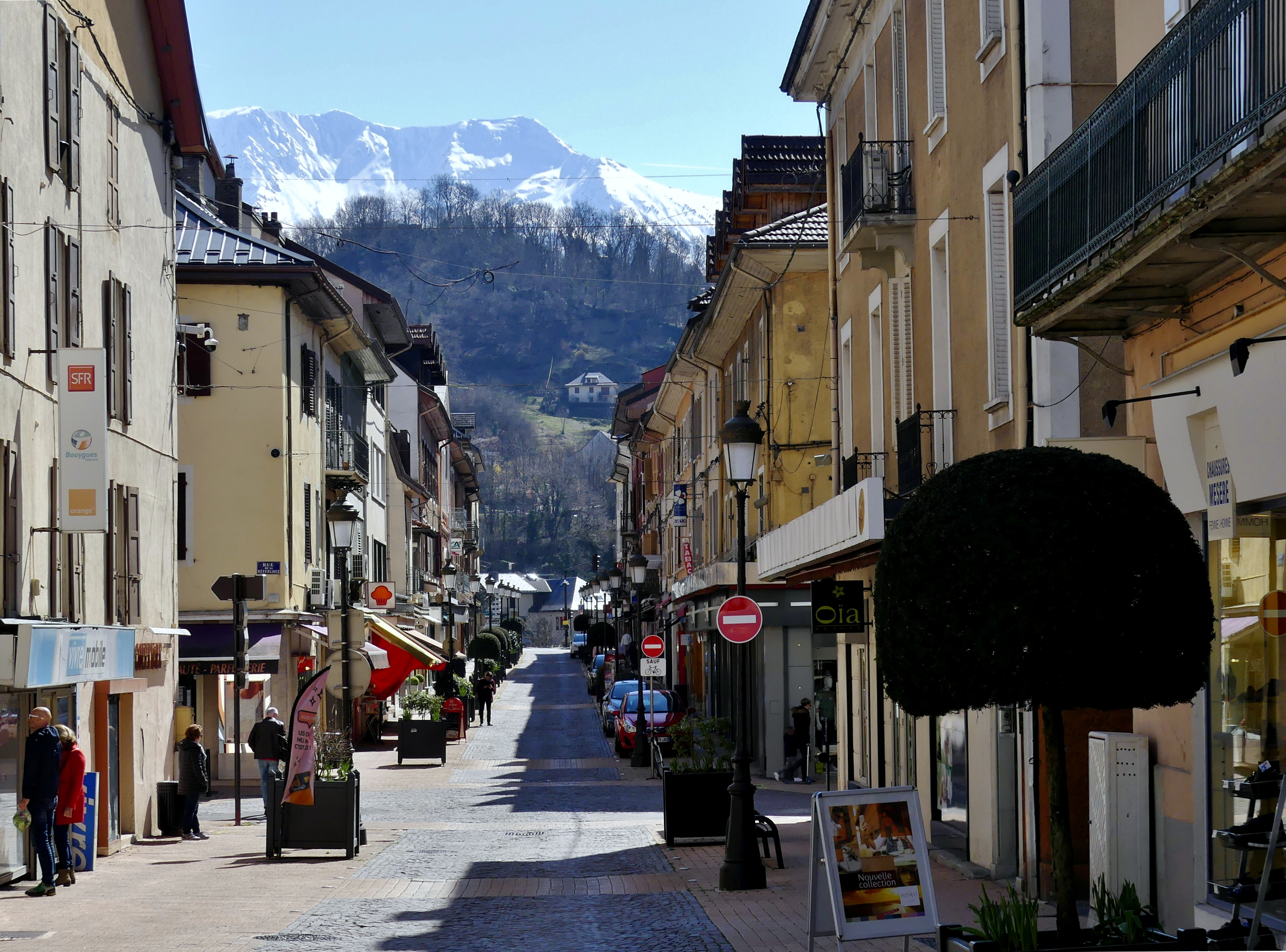 Sight, in the direction of Arly river, of Rue Gambetta street, in Albertville, Savoie, France.